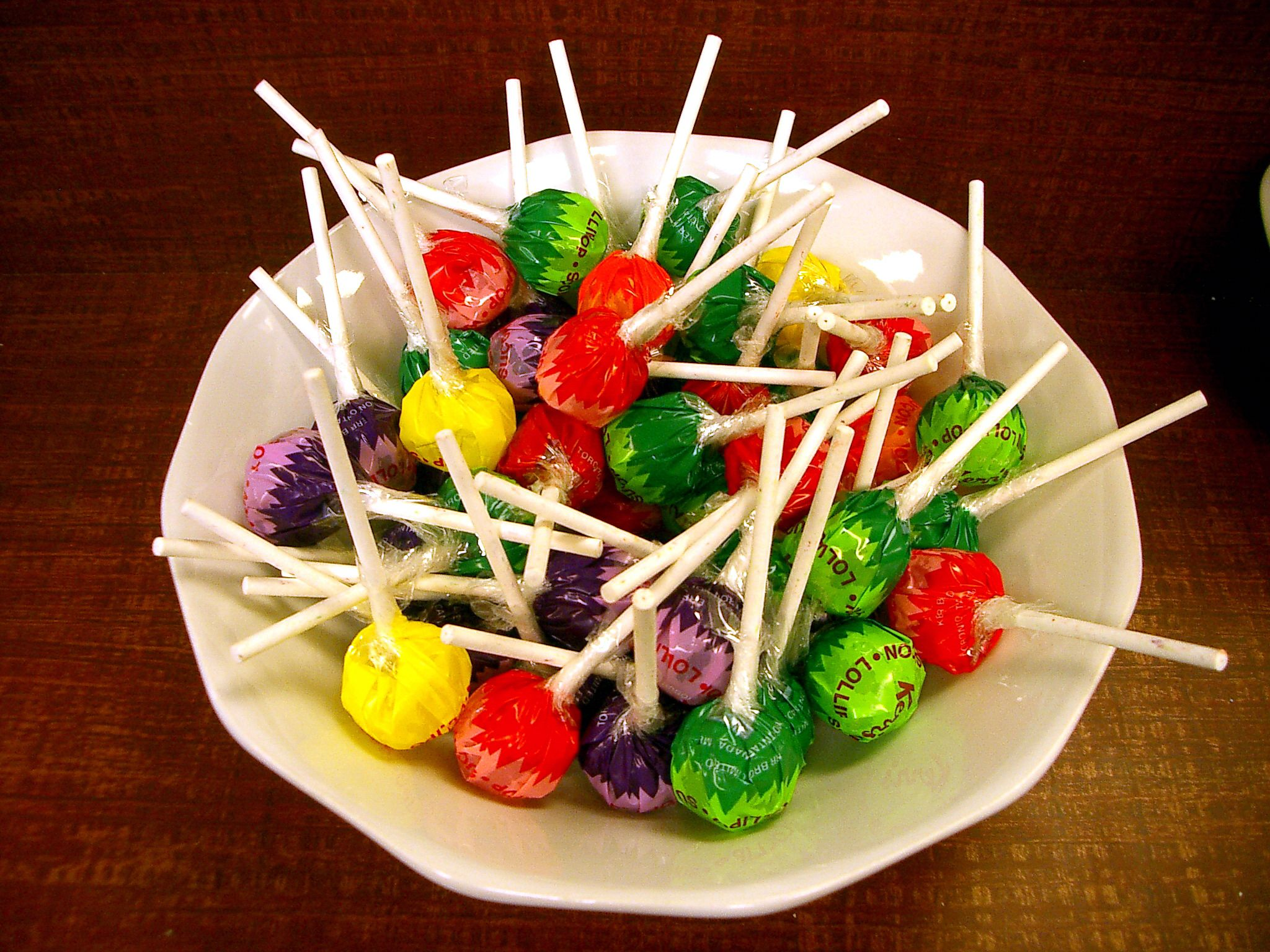 A bowl of candy appeared in the lunchroom at work